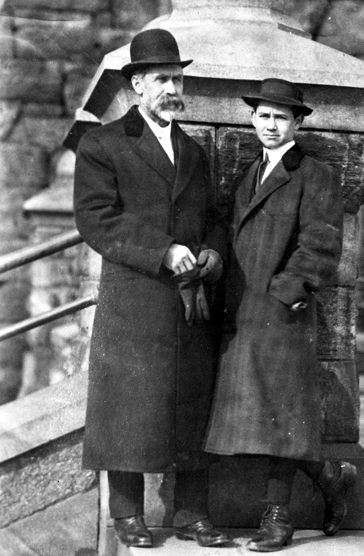 John B. Fairbanks and second eldest son, Avard T. Fairbanks (age 13) in New York City in 1911. Avard achieved a scholarship at the Art Students League. This photo and many others are used in the book, "Adventures of a Young Sculptor: The development and early life of Avard T. Fairbanks, a 20th century American sculptor."